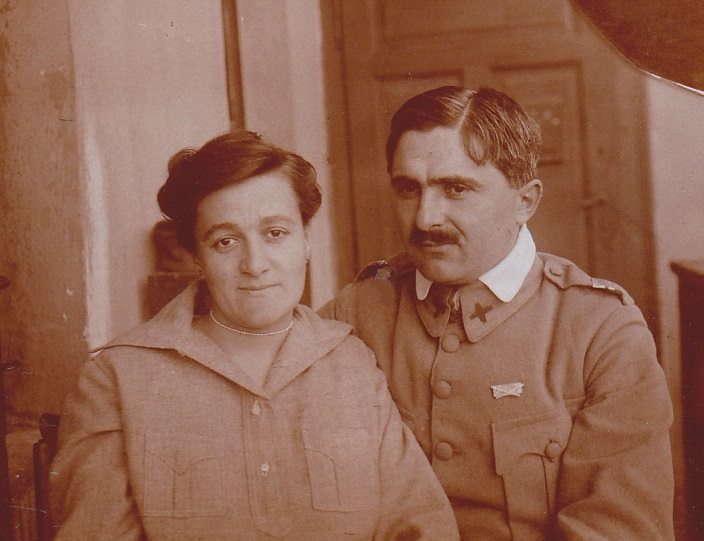 Romanian doctor and political activist Pompiliu Nistor, depicted here with his wife, Virgilia Nistor (born Branişte), at the end of World War I.